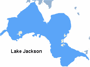 created by Noles1984